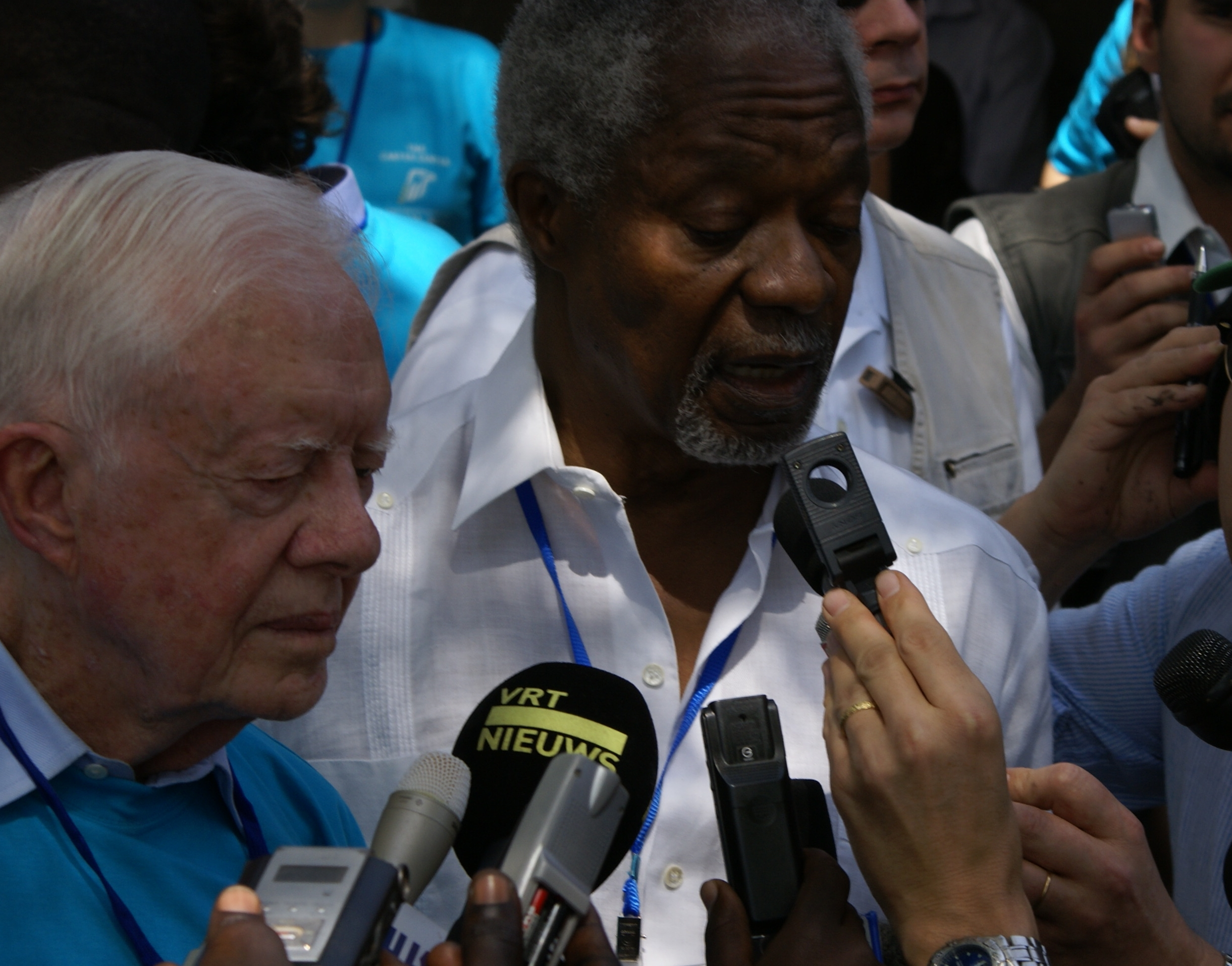 Kofo Anana giving an interview in Juba during the independet referendum